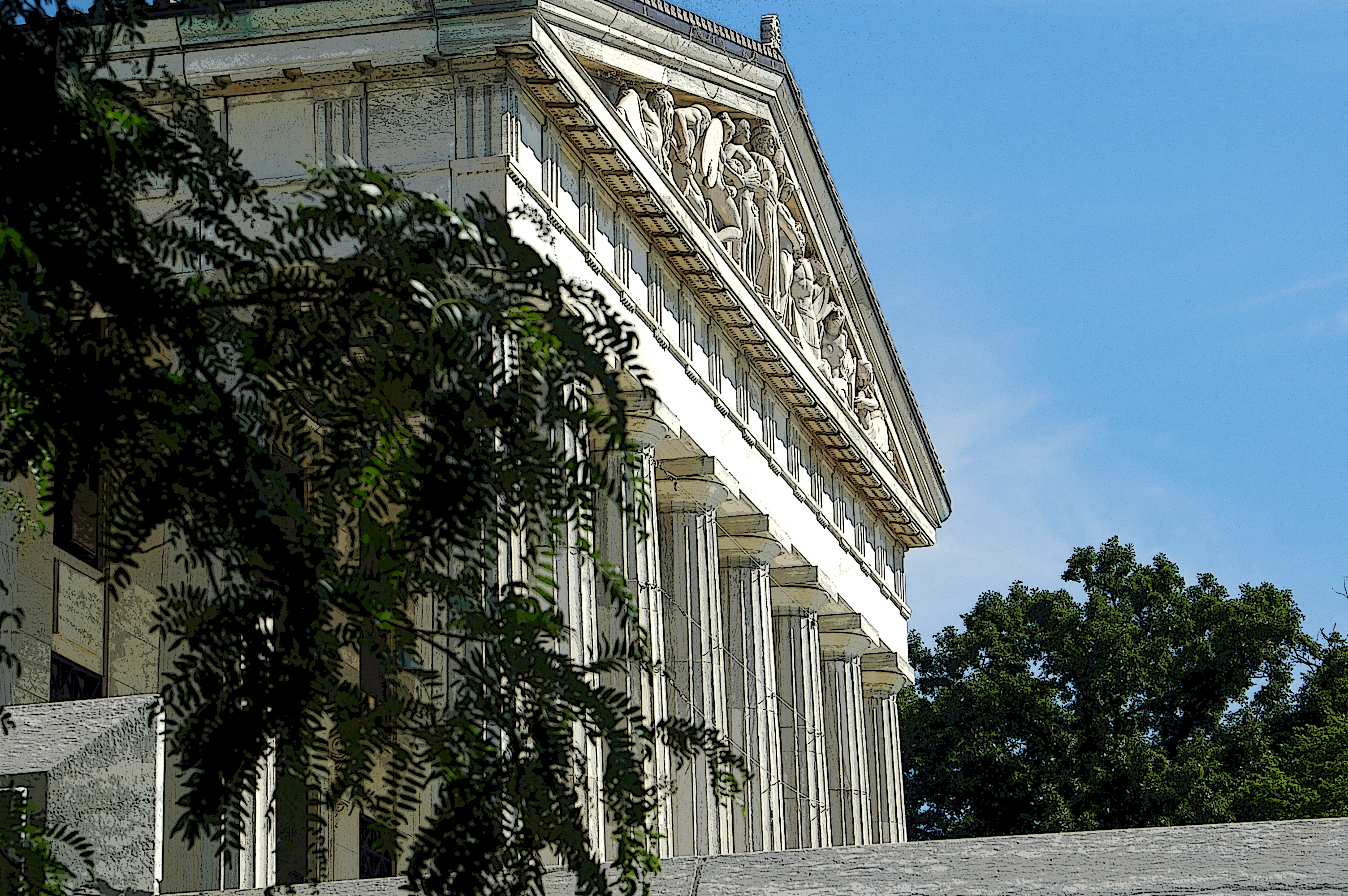 Buffalo and Erie County Historical Society. Elmwood Avenue, Buffalo NYBuffalo and Erie County Historical Society